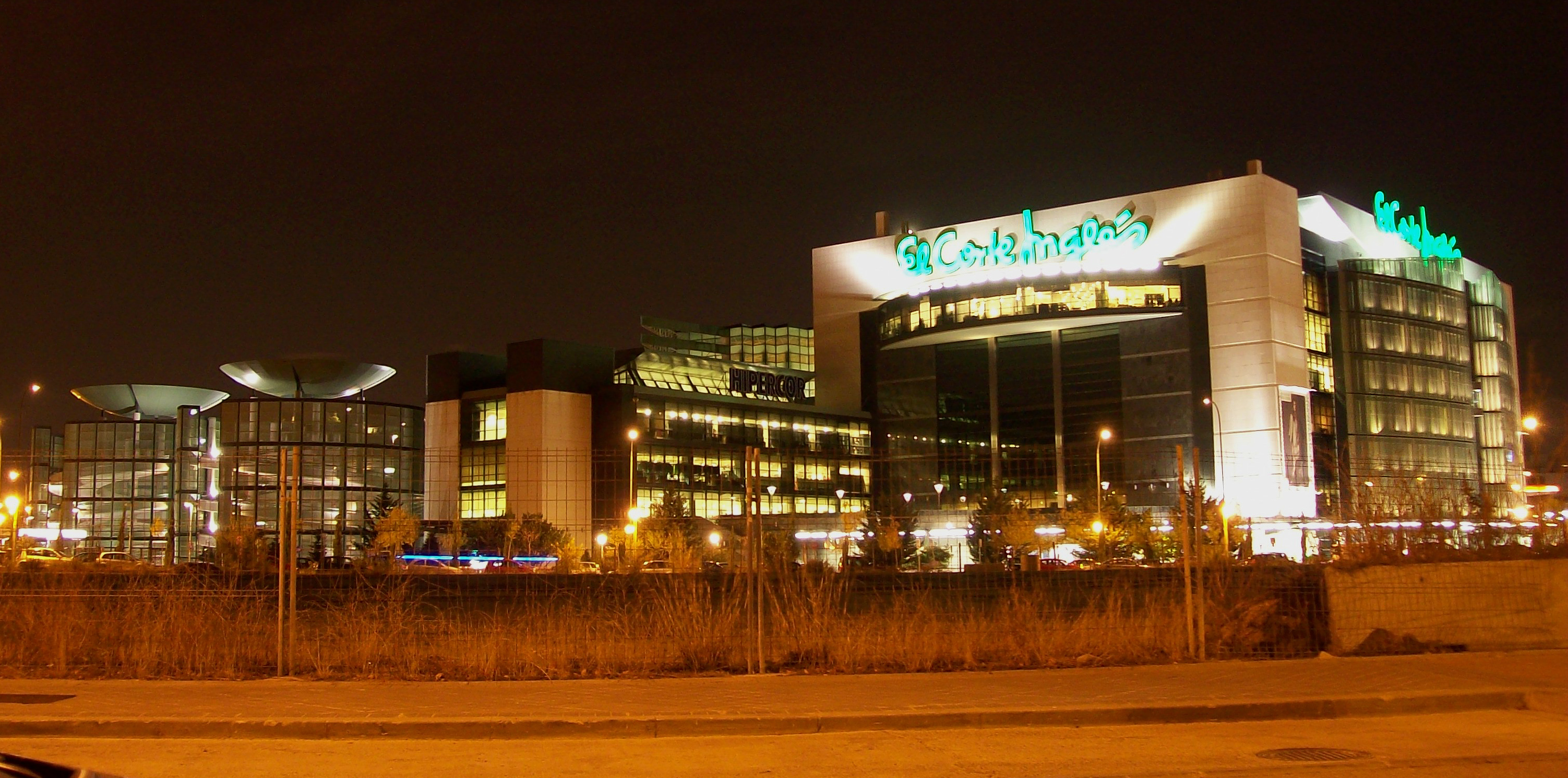 Night view of Centro Comercial Sanchinarro (a mall) in Madrid (Spain).